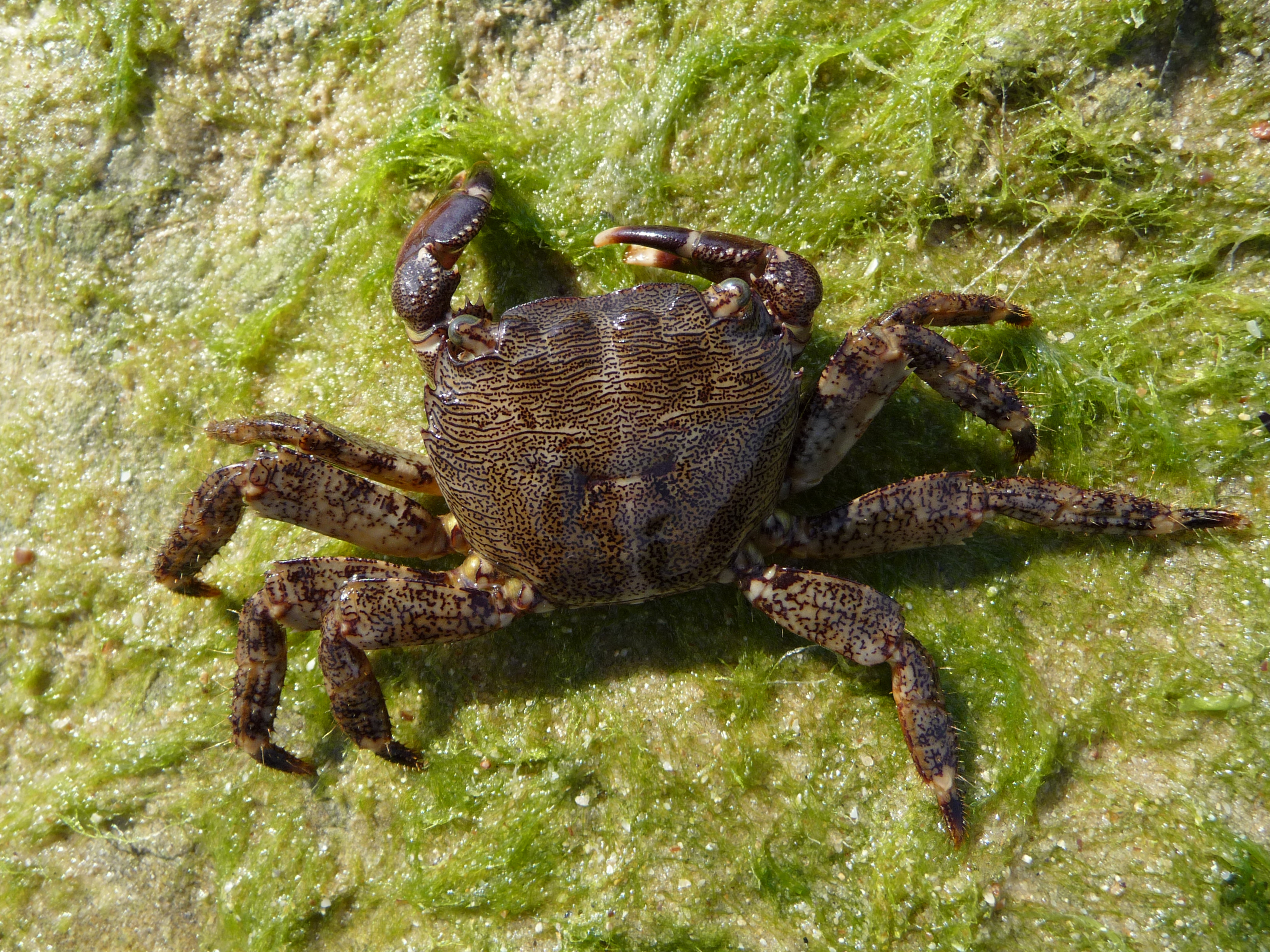 Marbled rock crab (Pachygrapsus marmoratus), female. This crab running over rock with a sea algae in surf zone. The Black sea.